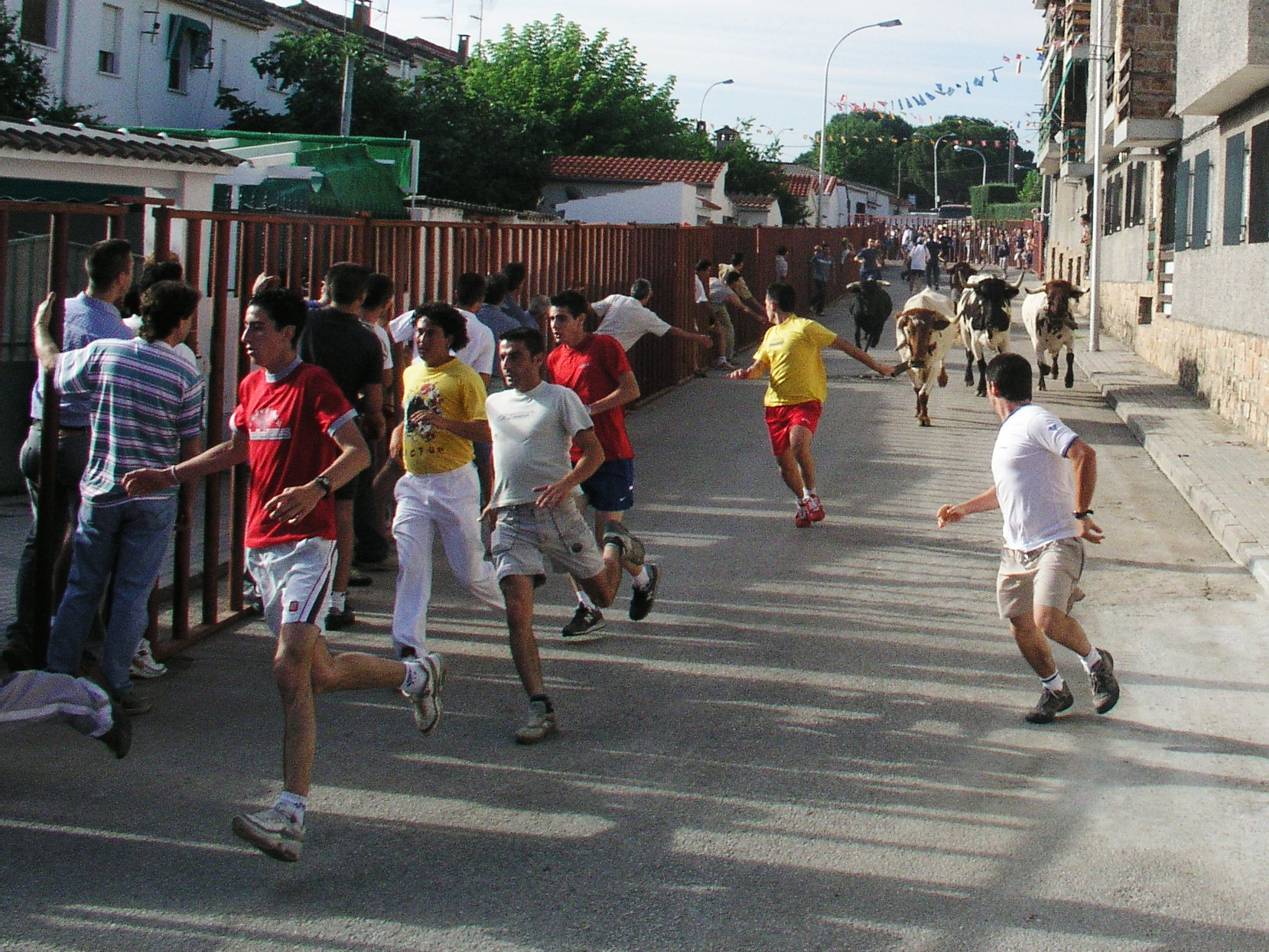 Encierro / Running of the bulls, at Aldea del Fresno, Spain